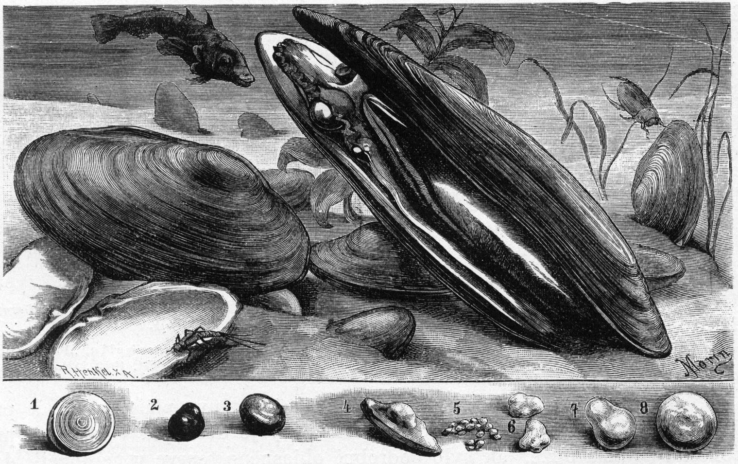 Drawing of ' from Brehms Tierleben